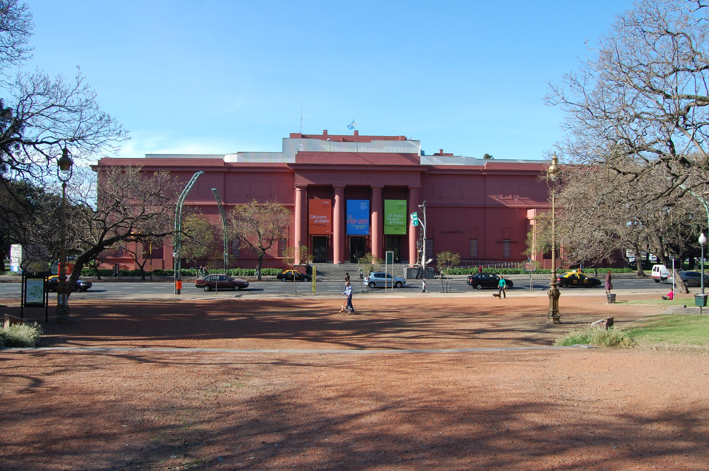 National Museum of Fine Arts, Buenos Aires.